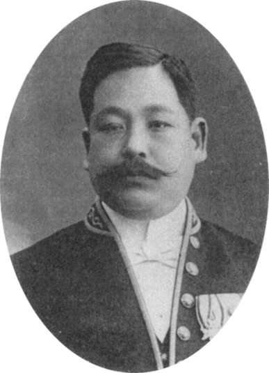 Late Mr. Kanichirō Miwa.